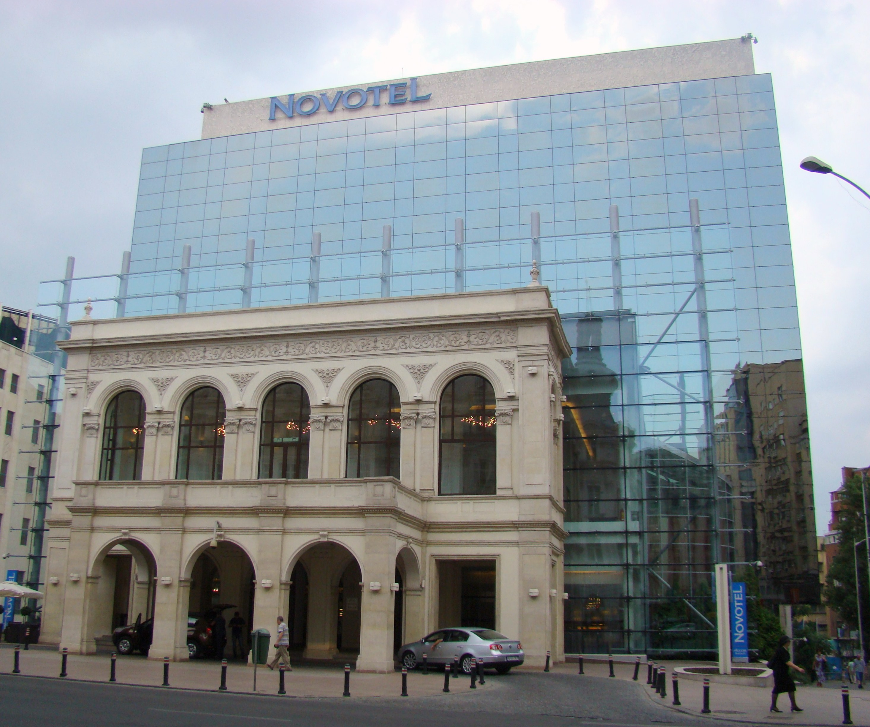 Neoclassical and contemporary facades of hotel, with original porte-cochère — in Bucharest, Romania.